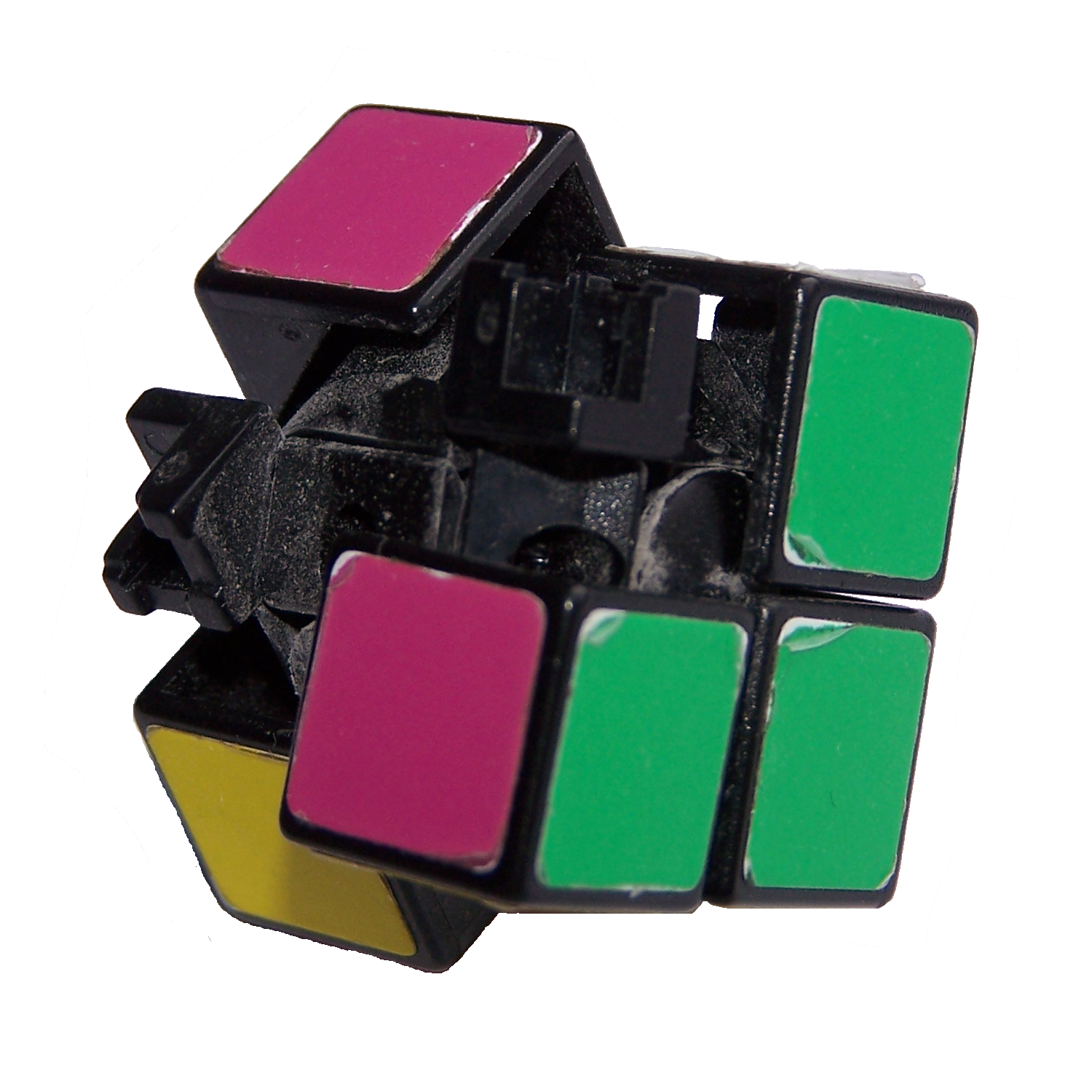 The picture shows the 2×2×2 Pocket Cube, also known as Mini Cube, this here was made by Eastsheen and its length is 2.5 cm (1 inch). 2 cornercaps were removed, so that you can see the mechanism of the Cube